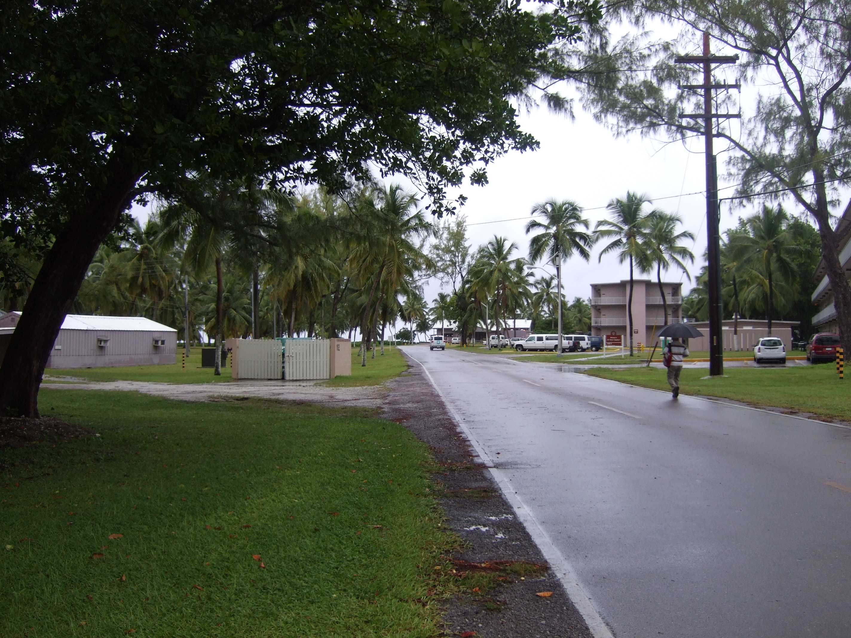 typical street